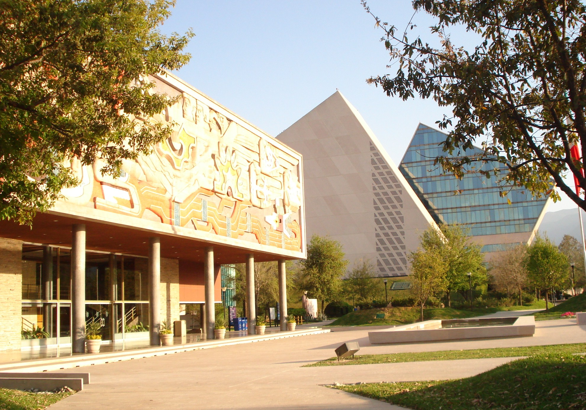 The rectorate building (left) and the CETEC towers at the Monterrey Institute of Technology and Higher Education, Monterrey Campus, in Monterrey, Nuevo León, México.